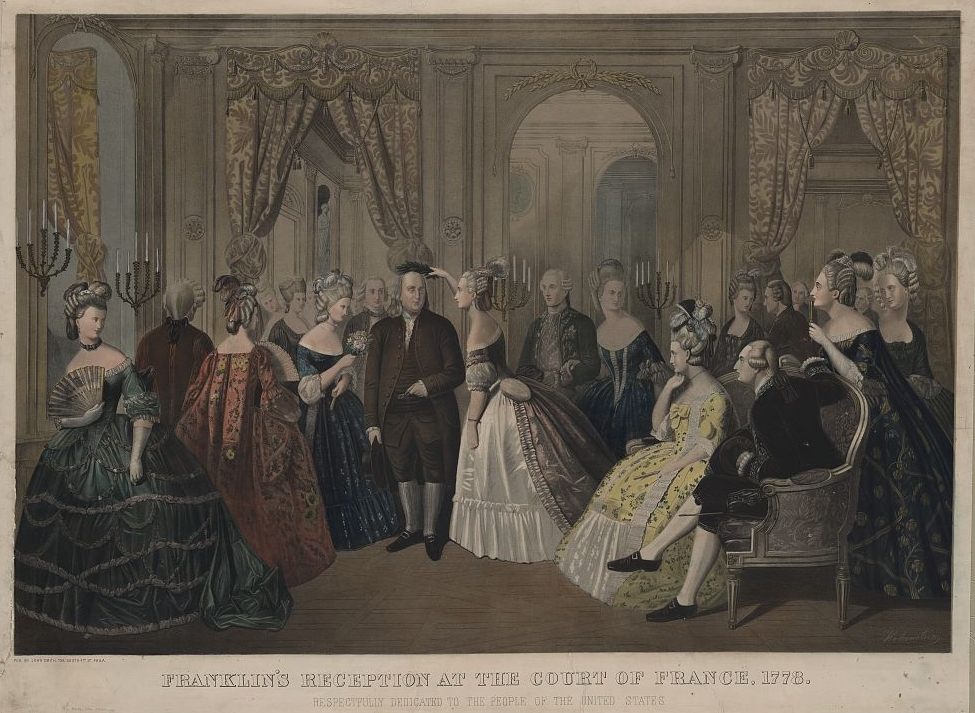 "Benjamin Franklin's reception at the court of France, 1778. Respectfully dedicated to the people of the United States." Print shows Benjamin Franklin receiving a laurel wreath upon his head. From left to right, some of the members of the French court include: Duchesse Jules de Polignac, Princesse Lamballe (holding flowers), Diane de Polignac (holding wreath), Comte de Vergennes, Mme Campan, Contesse de Neuilly, Marie-Antoinette (seated), Louis XVI, Princess Elizabeth. Hand-coloured lithograph.